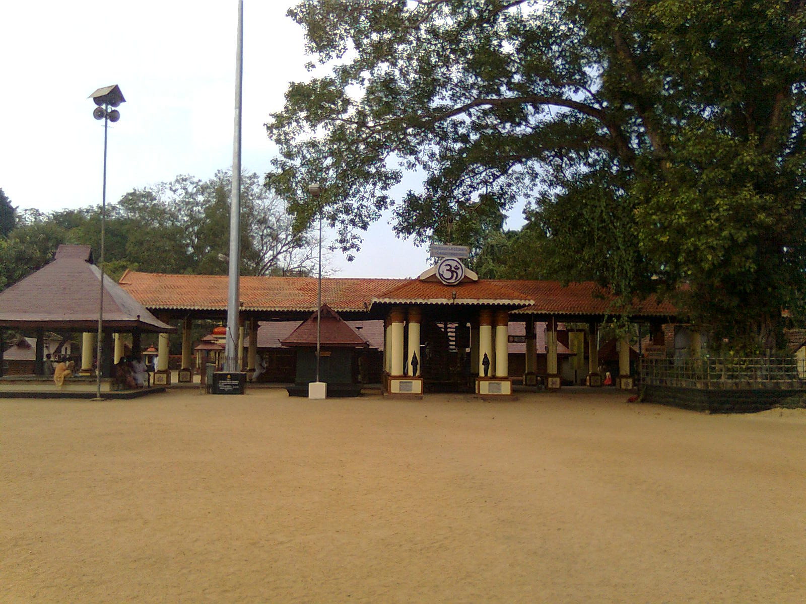 The Frontal view Of Chettikulangara Devi Temple